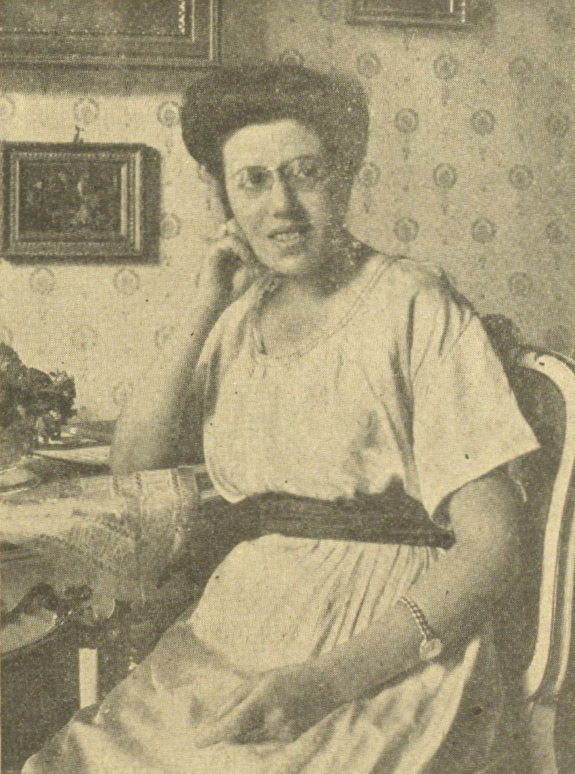 Marianne Beth (1890–1984), Austrian-American lawyer and sociologist